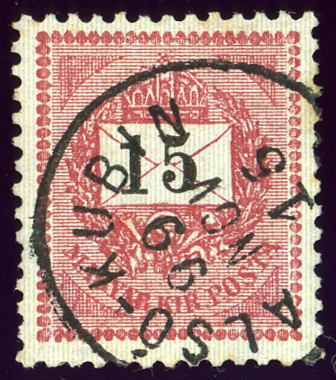 Kingdom of Hungary, 15 kr rose and blue stamp issue 1898 (SG96), cancelled at ALSO-KUBIN, Slovakia in 1899.